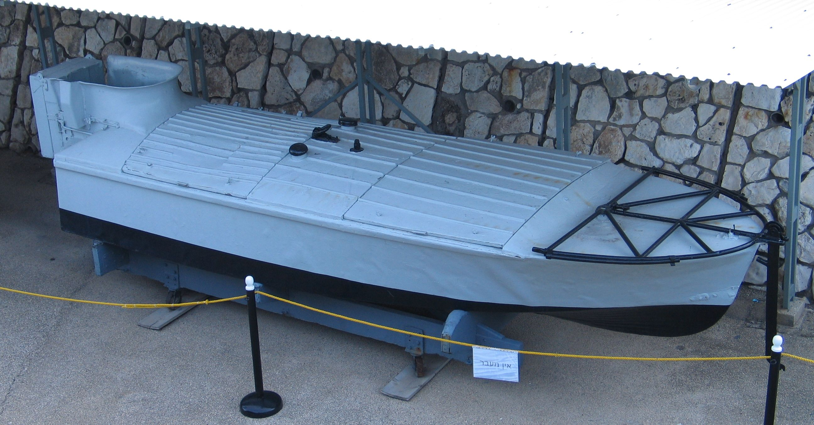 Explosive motor boat of the type used by the Israeli Navy in the Independence War, in the Clandestine Immigration and Naval Museum, Haifa, Israel. Possibly an Italian MTM (Motoscafo da Turismo Modificato).